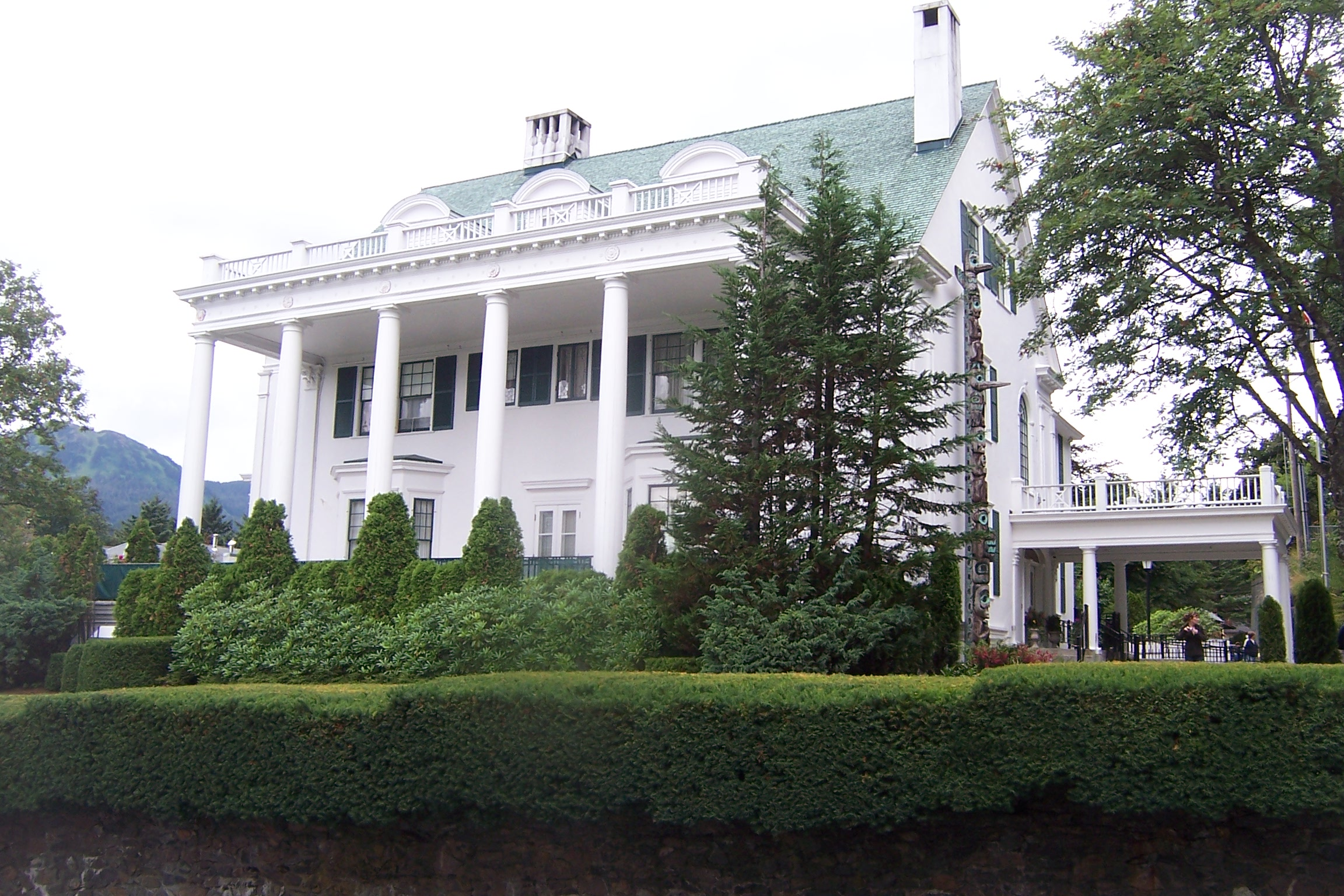 Side view of the Alaska Governor's Mansion in Juneau